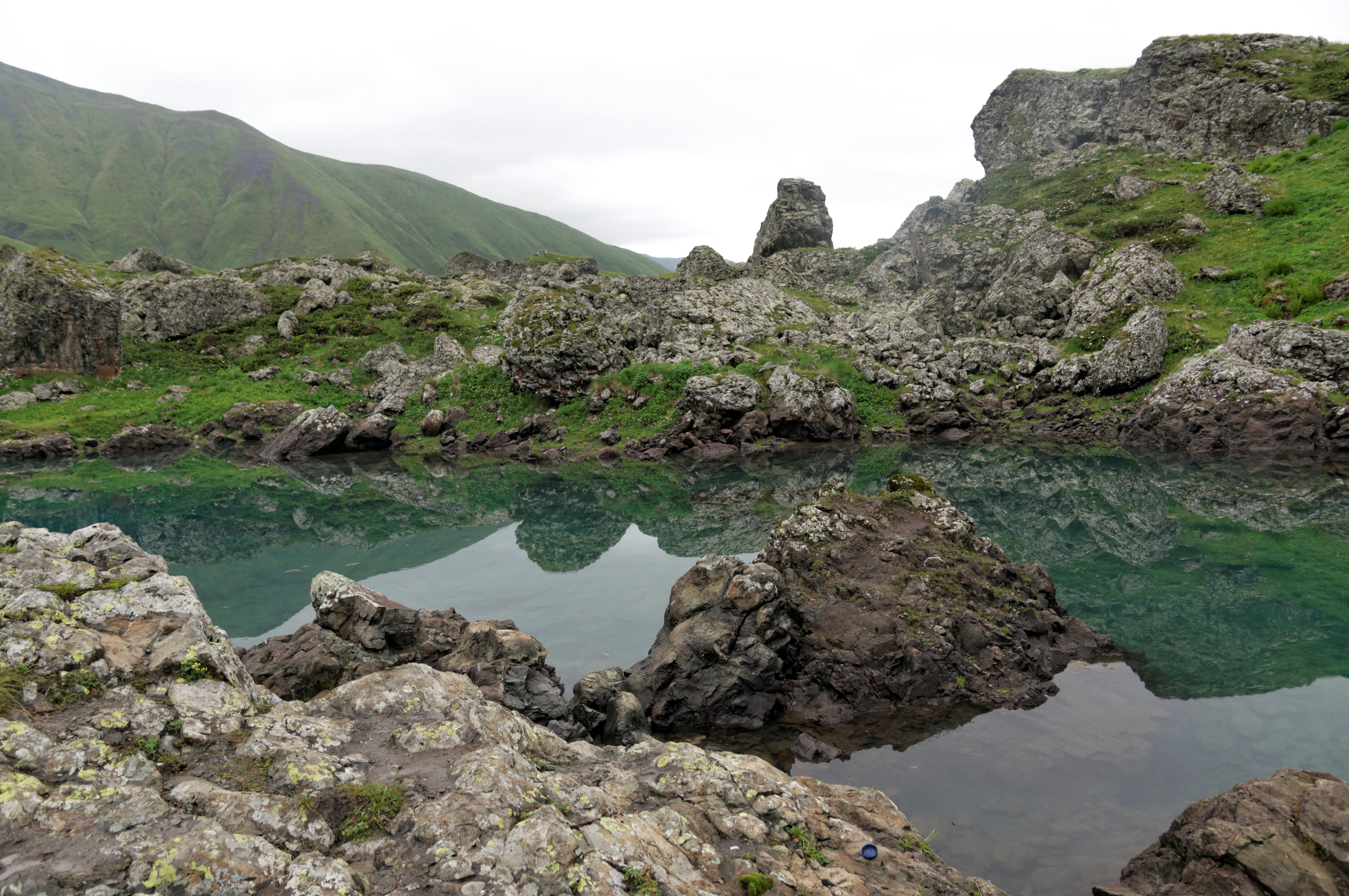 Abudelauri colorful glacier lakes under Chaukhi pass.